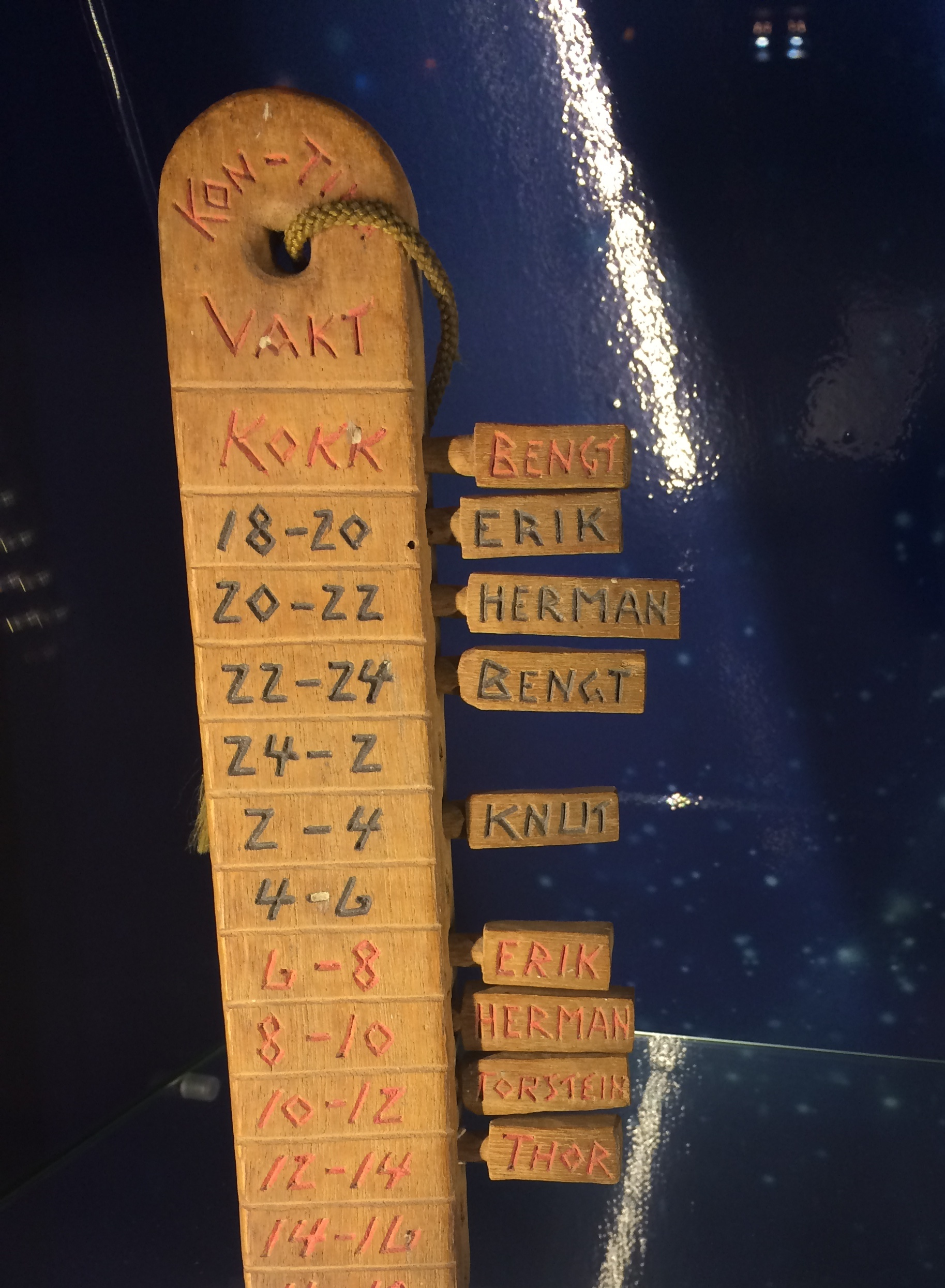 Parole list for the Kon-Tiki expedition, carved in wood by Thor Heyerdahl, and used onboard the Kon-Tiki expedition.